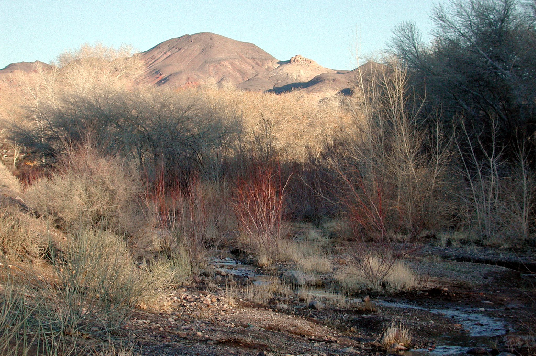 Amargosa River in Beatty, Nevada, looking upstream. Photo taken from where Valley Street ends at the river.